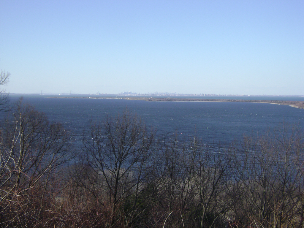 View from the Mount Mitchill overlook located in the headlands of New Jersey's Navesink Highlands. Looking across Sandy Hook Bay and the Atlantic Ocean, it possible to see (from left to right) Staten Island, the Verrazano-Narrows Bridge, the skyline of Jersey City, New Jersey, the skyline of Manhattan, and the western portions of Long Island.